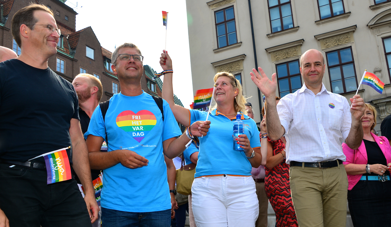 The Moderate Party in the final Pride Parade during Stockholm Pride in 2014. From left: Anders Borg, Kent Persson, Catharina Elmsäter-Svärd, Fredrik Reinfeldt (party leader).